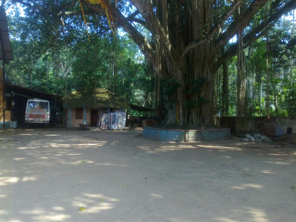 baniya tree